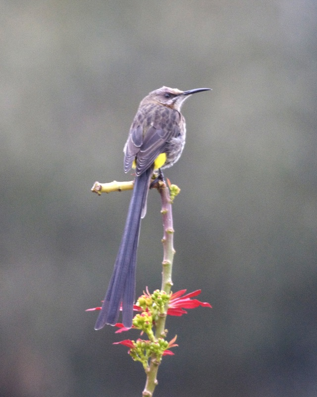 Cape Sugarbird Promerops cafer 4th. October 2009 Moore's End, A proteus farm in Stellenboch, South Africa Distribution: 690V4955